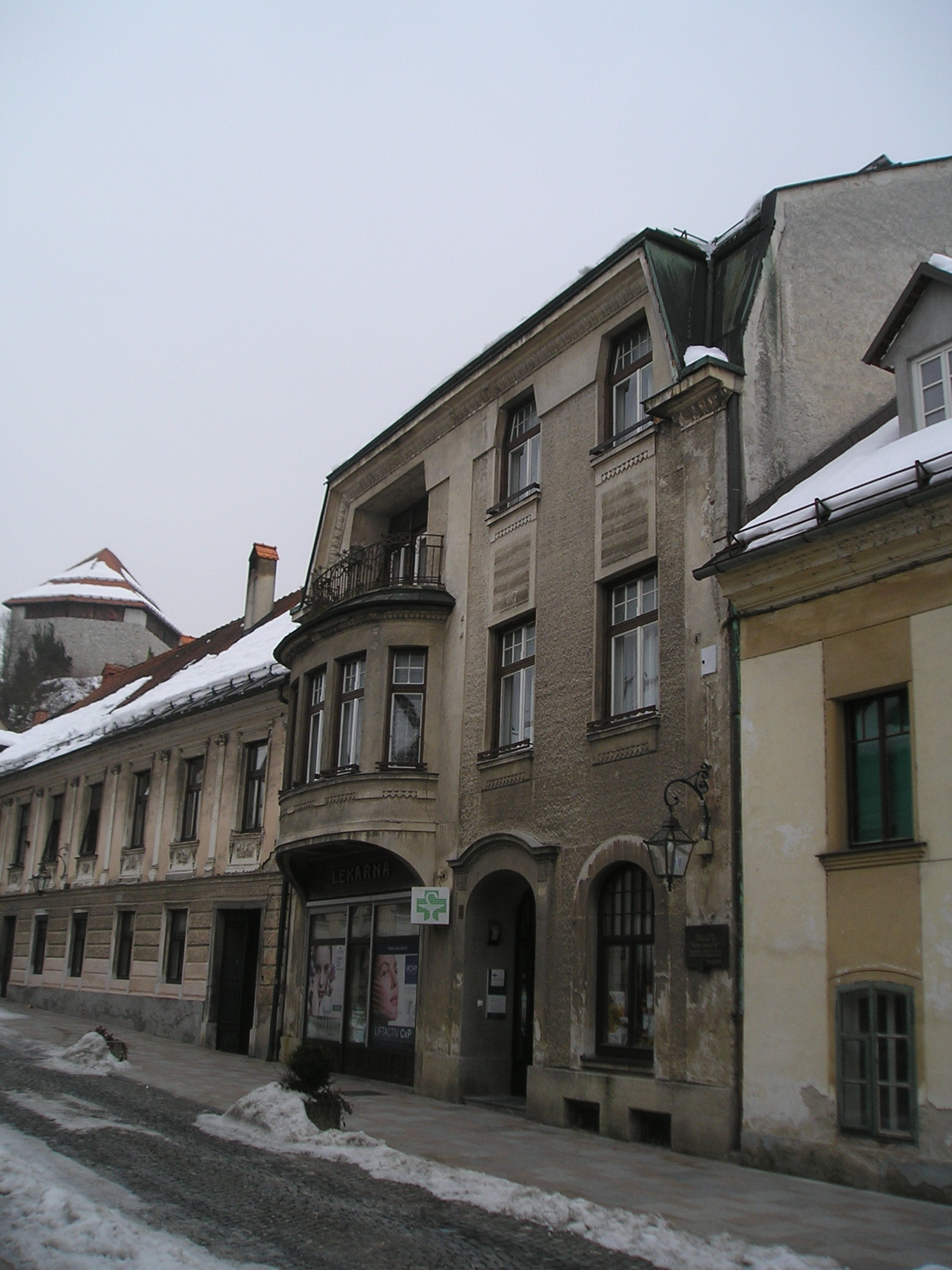 Birth house of Slovene painter Ivan Vavpotič in Kamnik, Slovenia (current address: Šutna 7)